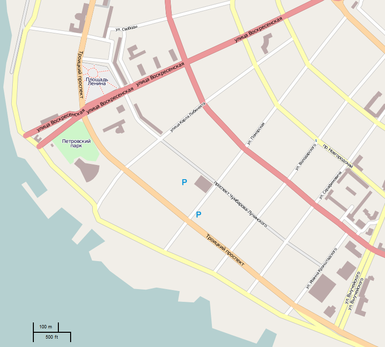 Карта проспекта Чумбарова-Лучинского This map may be incomplete, and may contain errors. Don't rely solely on it for navigation.